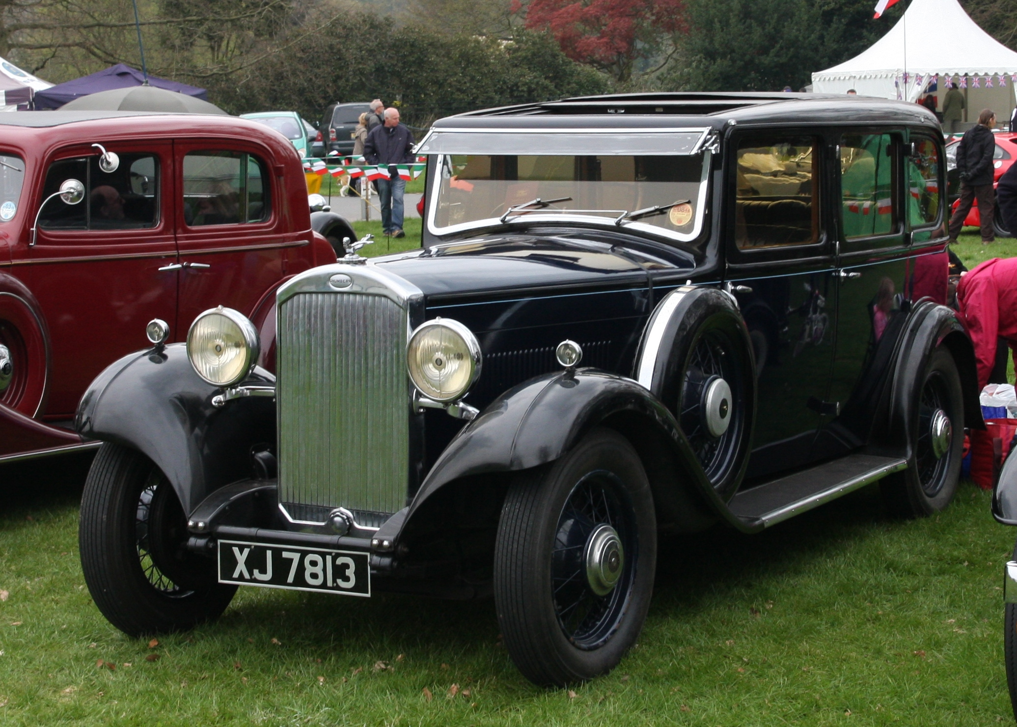 Humber 16/60 (1933) (subject to confirmation)